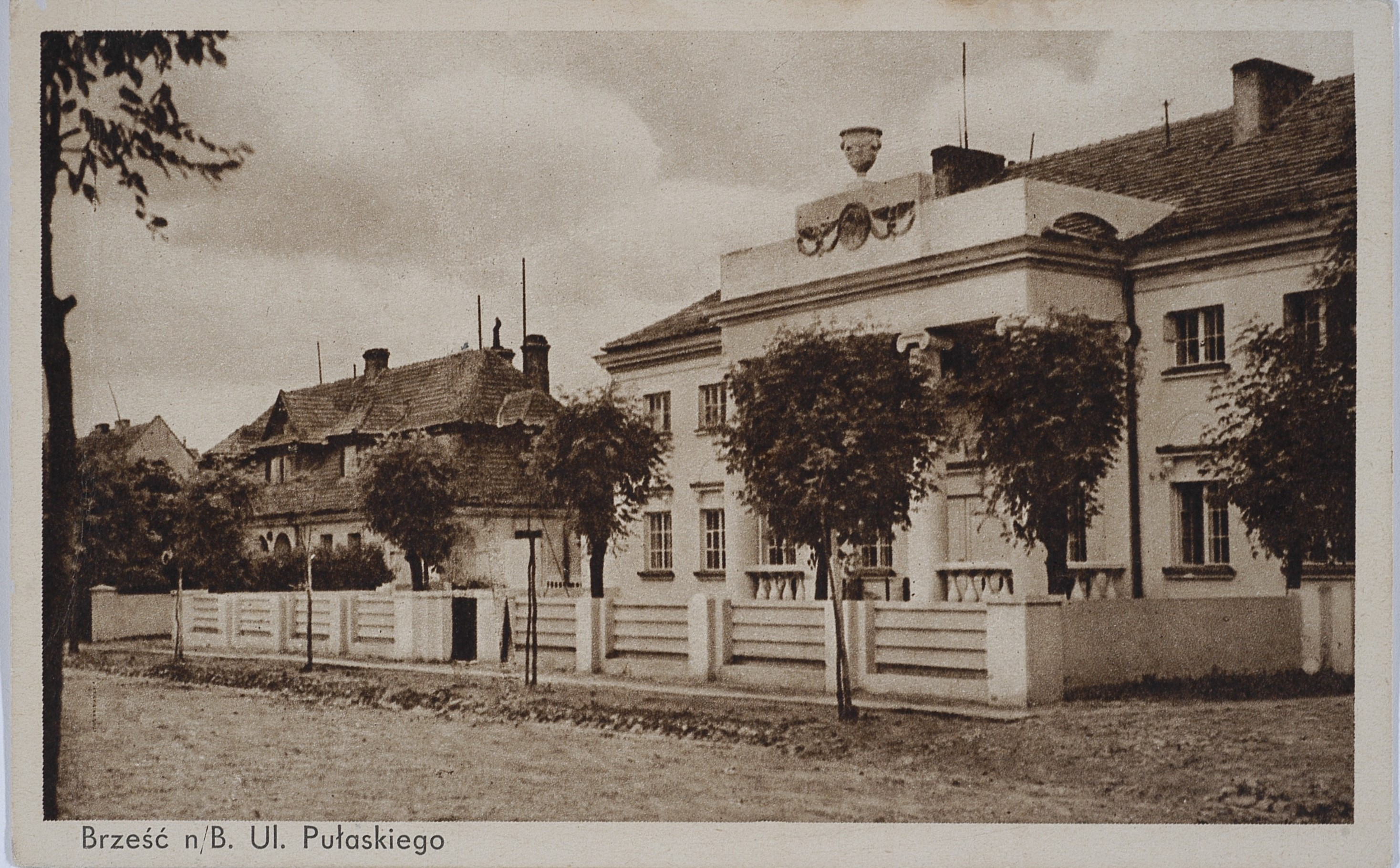 Street in Bieraście